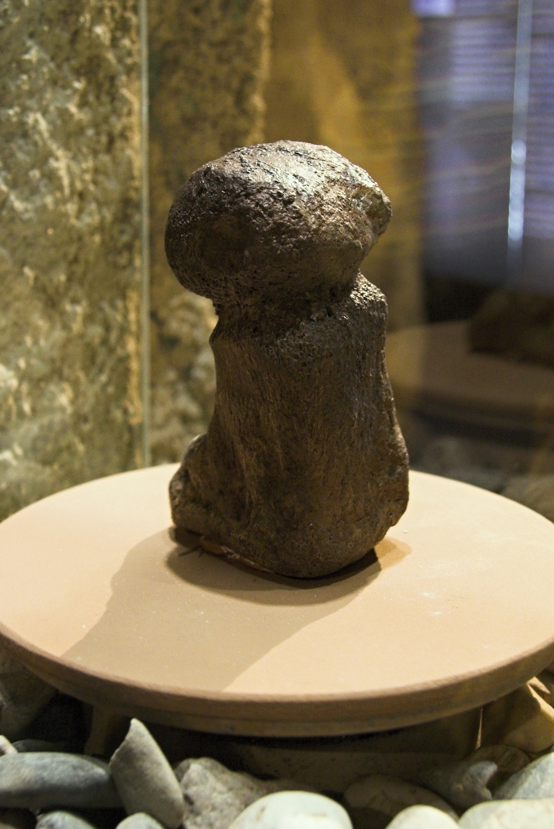 One of th seven female statuettes from modified mammoth phalanges. Předmostí u Přerova (Central Moravia, Czech Republic), Gravettian. Original. Temporary exhibition the Mammoth hunters in the NM Prague. The Moravian Museum (Brno).